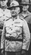 Four legendary Marine Officers photographed at Vera Cruz, Mexico in 1914. Front row, left to right: Wendell C. Neville; John A. Lejeune; Littleton W. T. Waller, Commanding; Smedley Butler.